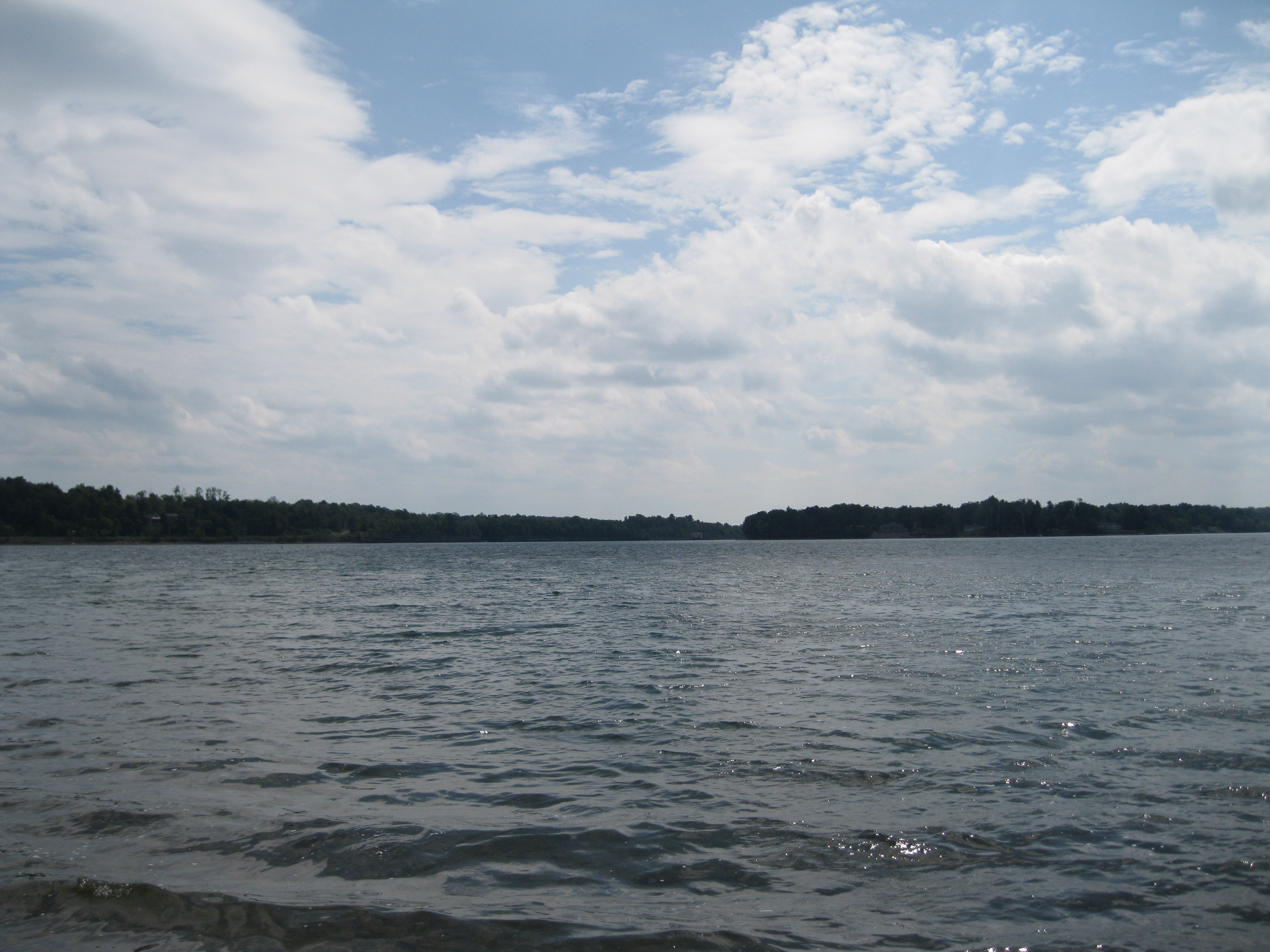 View of Delta Lake as seen from the Yellow Trail at Delta Lake State Park; Town of Western, Oneida County, New York